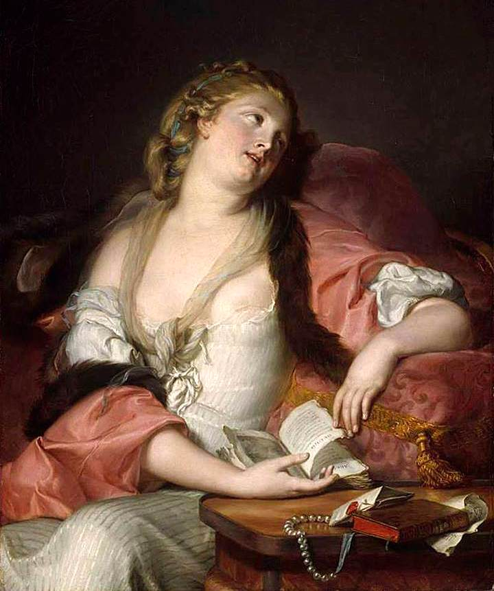 Lady Reading the Letters of Heloise and Abélard, a painting by Bernard d’Agesci (formerly ascribed to J-B Greuze). Oil on canvas, 81 x 65 cm, Art Institute, Chicago